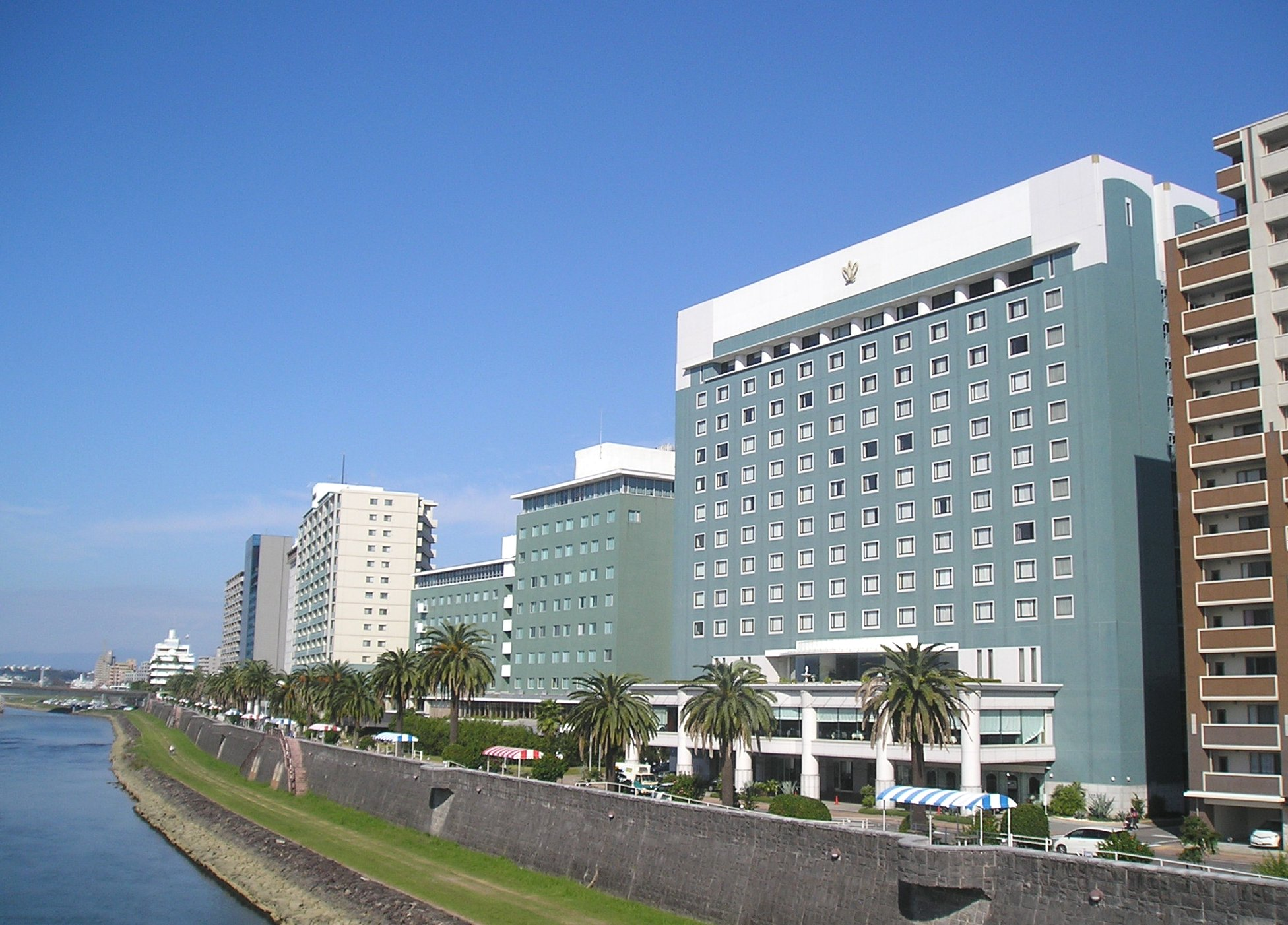 Miyazaki Kankō Hotel, Miyazaki City, Miyazaki, Japan